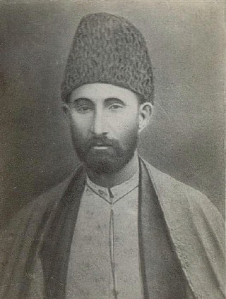 Seyid Azim Shirvani (1835-1888), Azerbaijani poet of XIX century